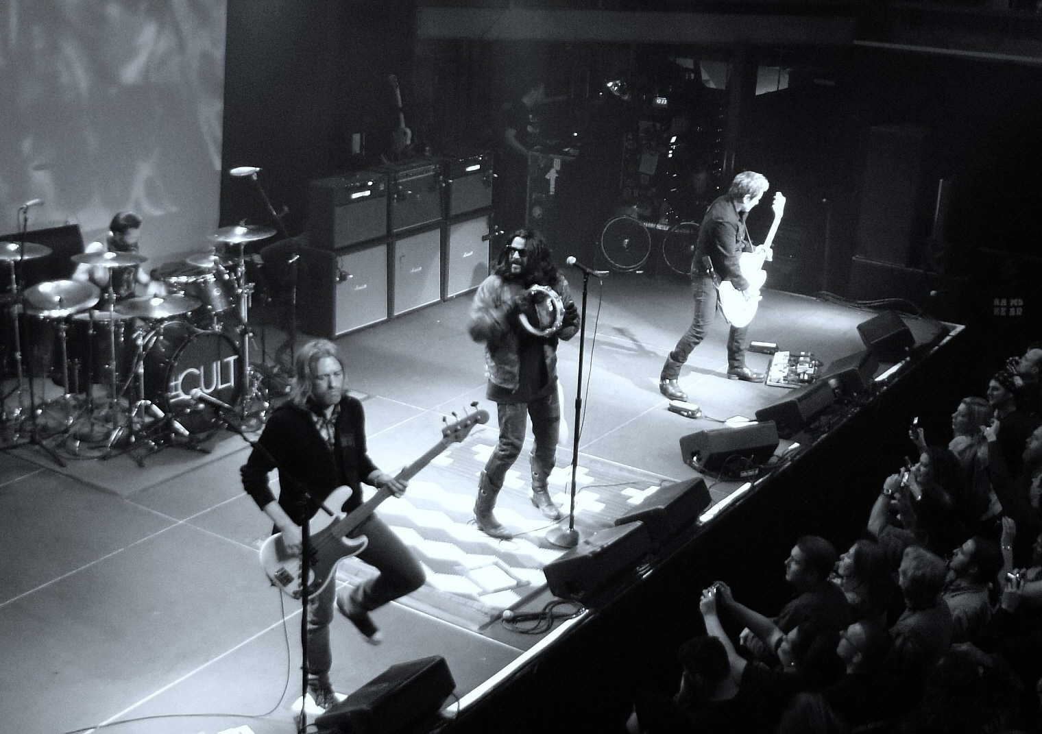 Ian Astbury - vocals Billy Duffy - guitar Chris Wyse - bass John Tempesta - drums Mike Dimkich - rhythm guitar